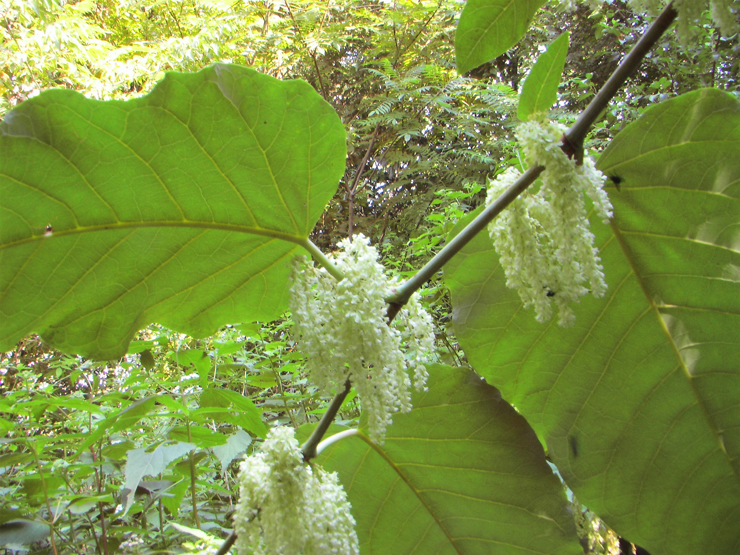 Velocicaptor Image of Fallopia sachalinensis stem and inflorescence